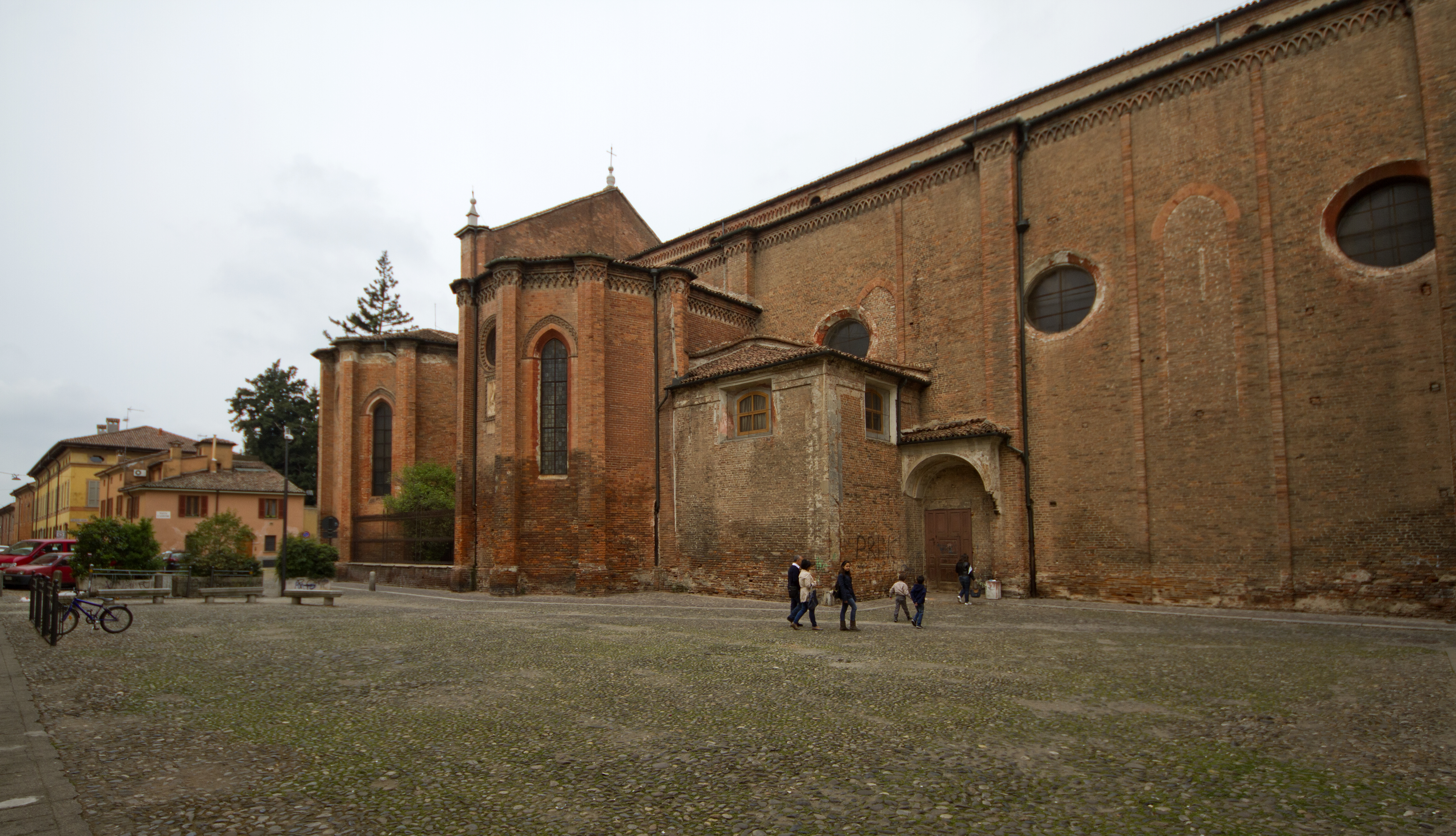 S. Augostino, Cremona, Lomardy, Italy